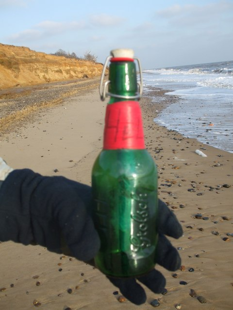 Message in a bottle I found the bottle at Benacre, it wished me well and has an email address, this had faded. Also a number but of Great Yarmouth Origin.